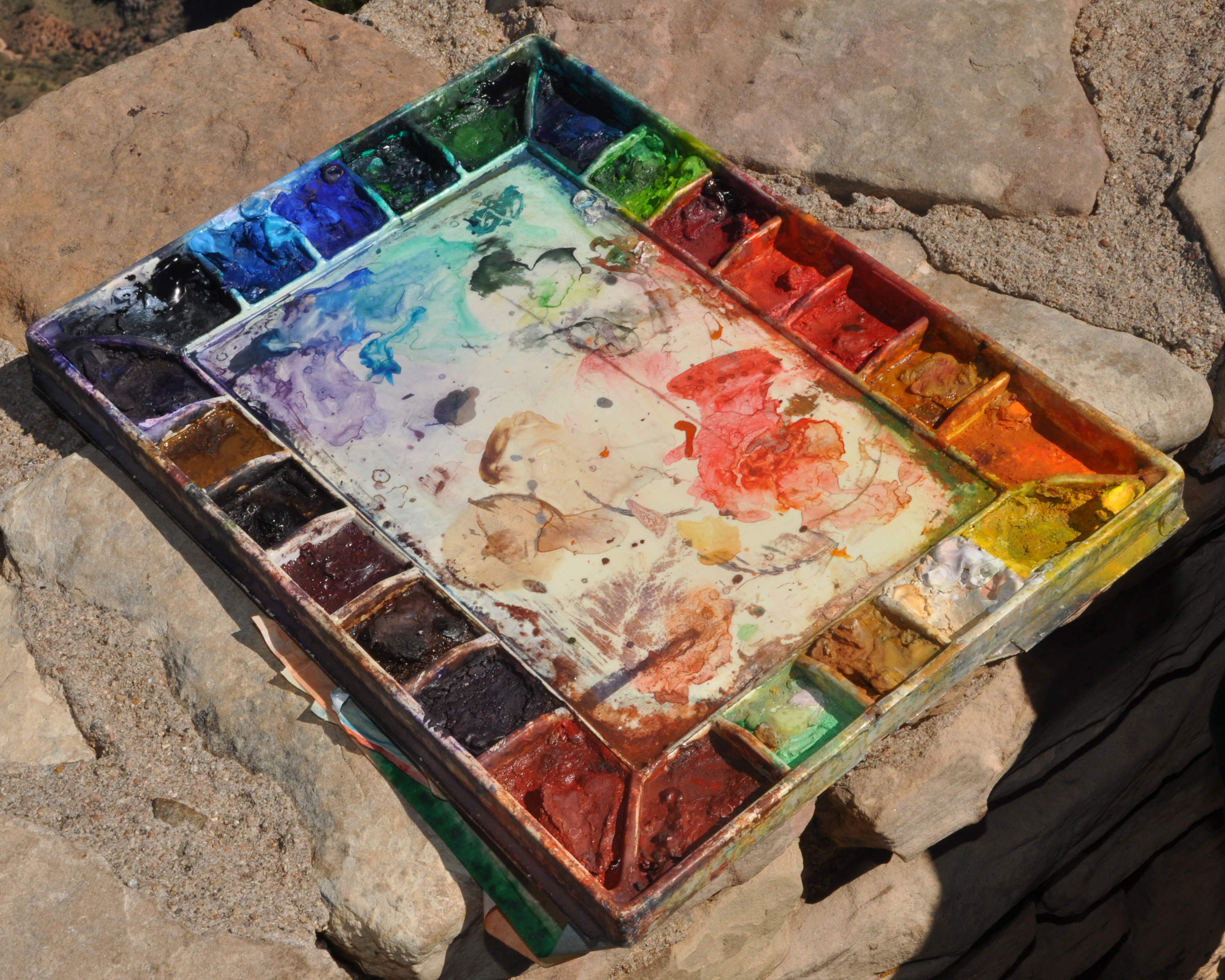 Artist's pallet during the 2010 Celebration of Art.. . Hosted each year by the Grand Canyon Association, the Grand Canyon Celebration of Art is an annual event that includes 6 days of art related events followed by a month long exhibition in Kolb Studio on the South Rim of Grand Canyon National Park. . . The Celebration of Art features thirty artists from around the country who engage in a plein air competition and exhibition. Visitors have the opportunity to watch the artists paint as they seek to represent the shifting light and shadow, amazing land forms, and vibrant colors of this vast landscape. . . Each artist brings a completed studio piece with them and then creates more artwork on site during the "Plein Air on the Rim" and Quick Draw events that takes place in the historic district of Grand Canyon Village. During the auction that follows the Quick Draw event, Visitors have the opportunity to bid on the work and to bring a piece of Grand Canyon home. Proceeds from this event will support the goal of funding an art venue at the South Rim of the Grand Canyon. This permanent home will ensure that future generations of park visitors will be able to view the stunning art collection in the Grand Canyon National Park Museum and Grand Canyon Association Collections. NPS photo by Michael Quinn. . . . For more information about this year's Celebration of Art visit: . 2012 Dates: Artists "Plen Air on the Rim" September 8 - 12. Quick Draw Event and Auction (near El Tovar Hotel) September 14th . Exhibition & Art Sales September 14 - November 25, 2012